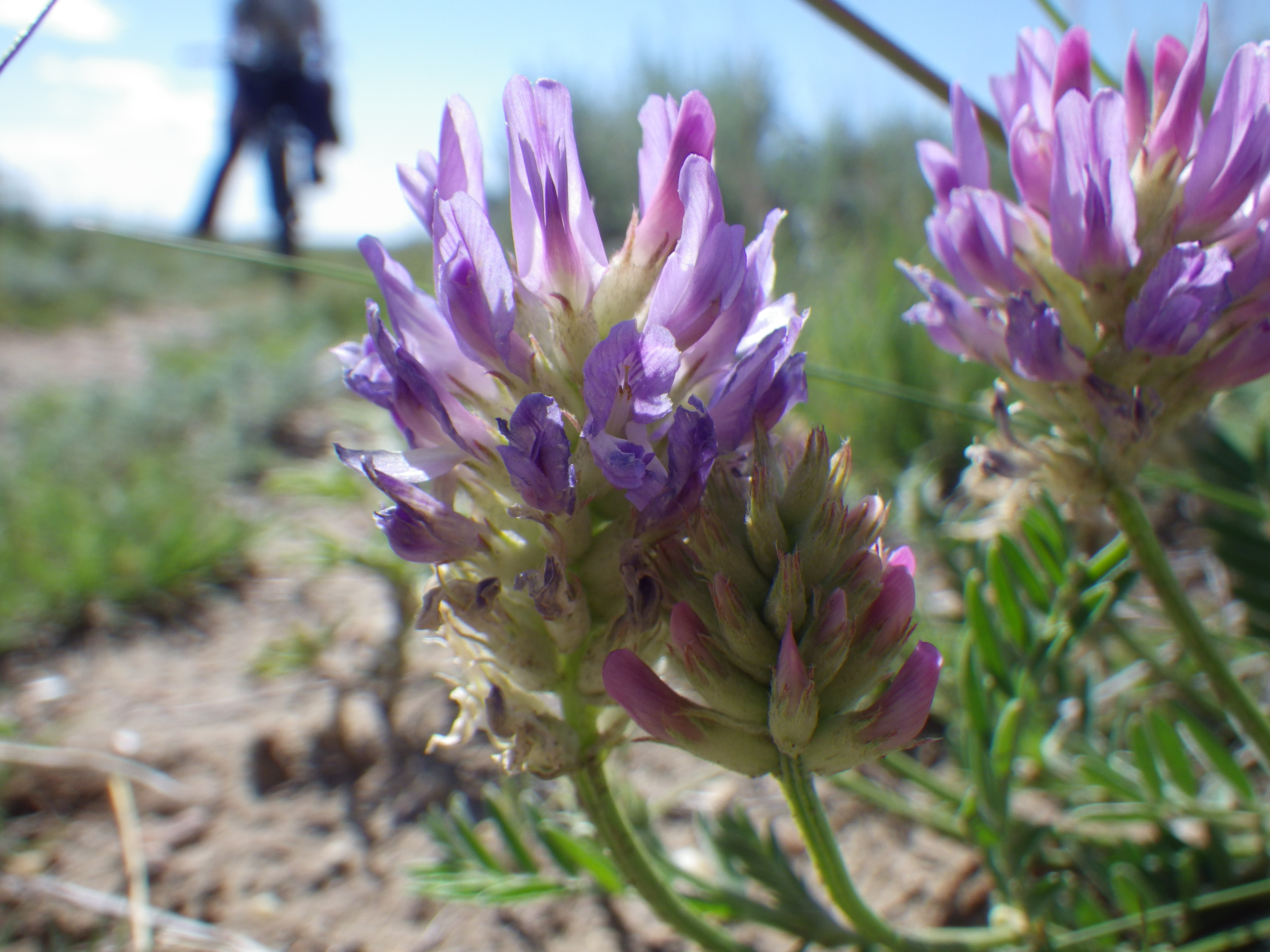 The inflorescence is a congested head of ascending flowers.